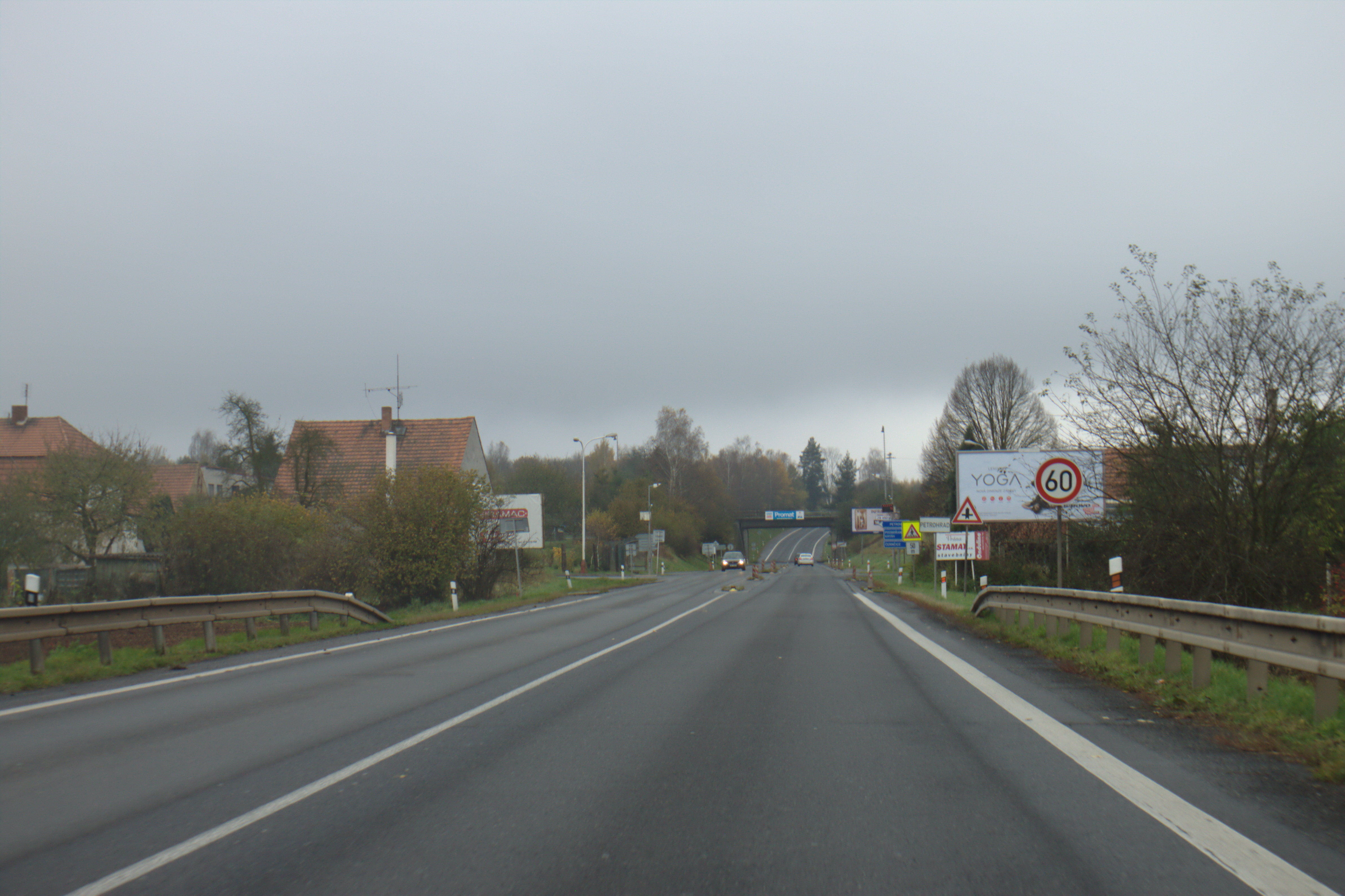 Arrival to the Petrohrad village in Louny District, Ústí Region, CZ